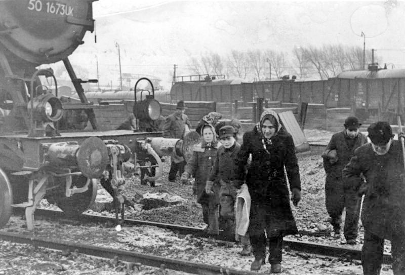 people stealing coal, British zone